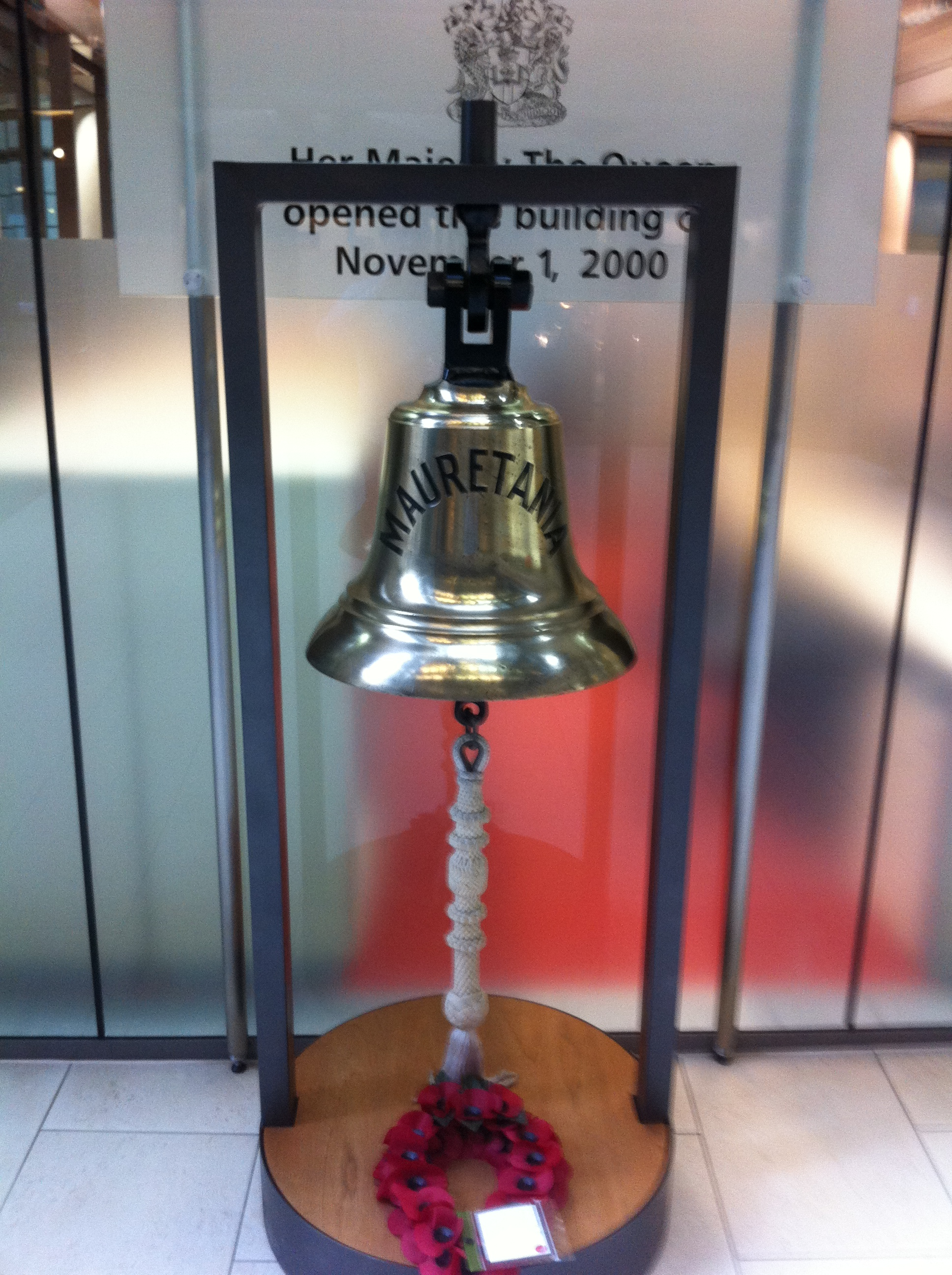 This is a photograph of RMS Mauretania ship's bell, located in Lloyds Registry of Shipping, London, United Kingdom.